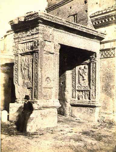 Arch of the Silversmiths (James Anderson (attributed to) - Arcus Argentarious, Rome, 1860s.)